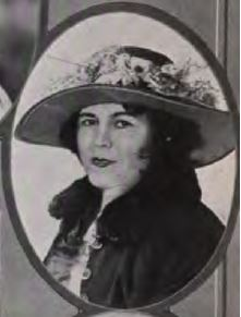 Lannie Haynes Martin, 1922 editor of The Land of Sunshine, Who's who among the women of California